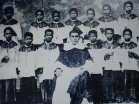 It is believed to be in fair use in Wikipedia because it is a unique historic photograph of high importance, whereas there are no known public domain image for the same subject. Displaying this image on Wikipedia does not reduce the value of the image for the original copyright holder. The Tiples de Santo Domingo is an all-boy vocal group established in 1587 by Fr. Pedro Bolaños, O.P., and is currently the oldest existing choral group in Asia. The word “tiple” in Spanish means the soprano voice of a boy. When members reach the age of puberty, their voices change either to a tenor or a bass. The boys range from 8 years old to 14 and sometimes a little bit older. The group was eventually maintained to sing for the annual celebration of the Feast of Our Lady of the Most Holy Rosary of La Naval de Manila held in October.